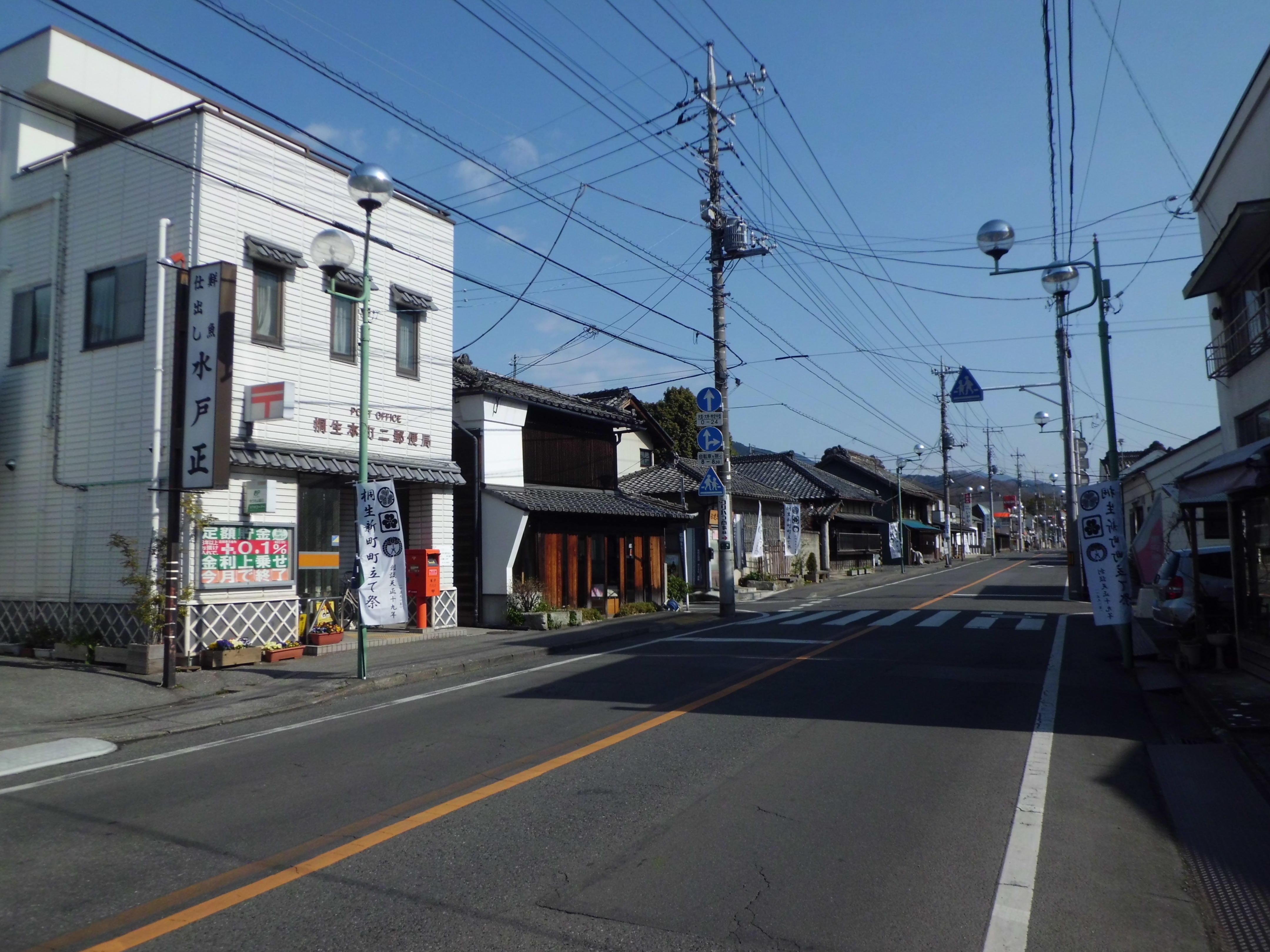 Honcho 2-chome, Kiryu city, Gunma prefecture, Japan.